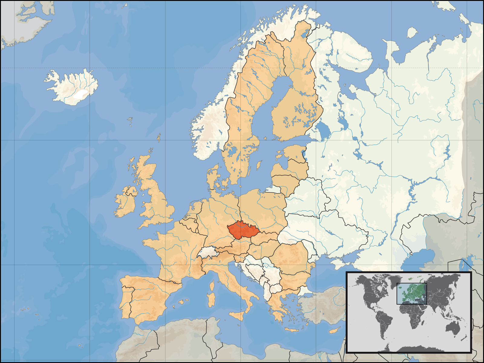 Location of the Czech Republic within Europe and the European Union on the 1st of January 2007.